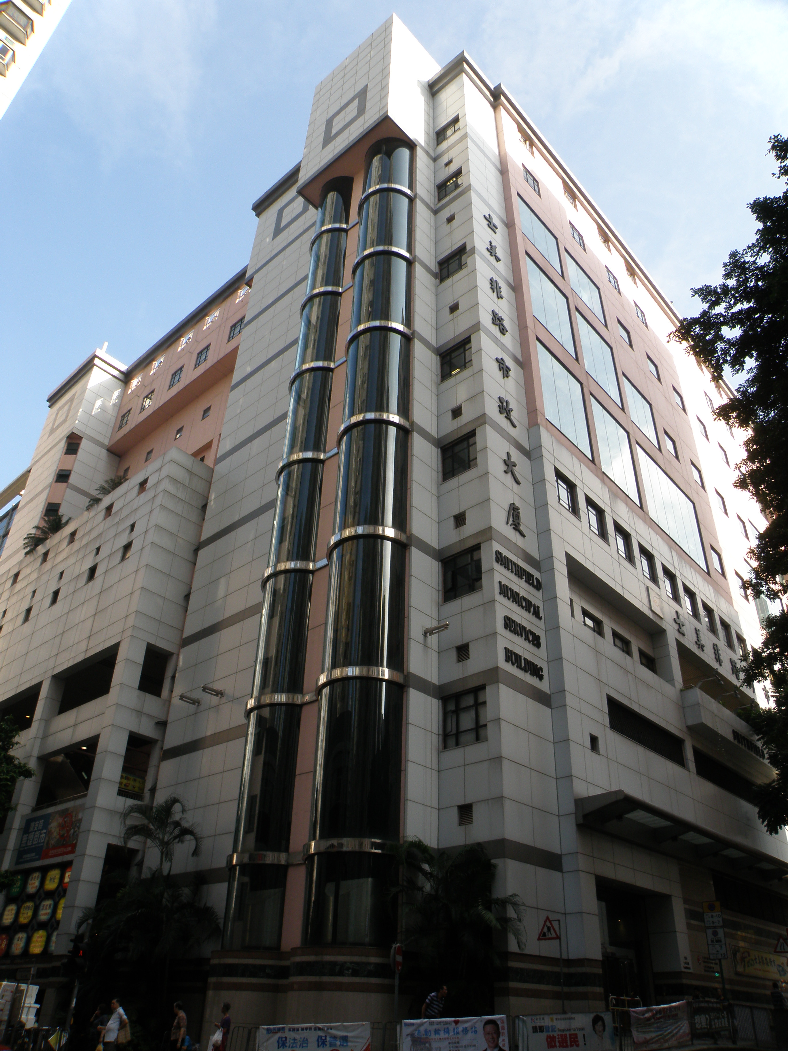 Smithfield Municipal Services Building in Kennedy Town, Hong Kong.